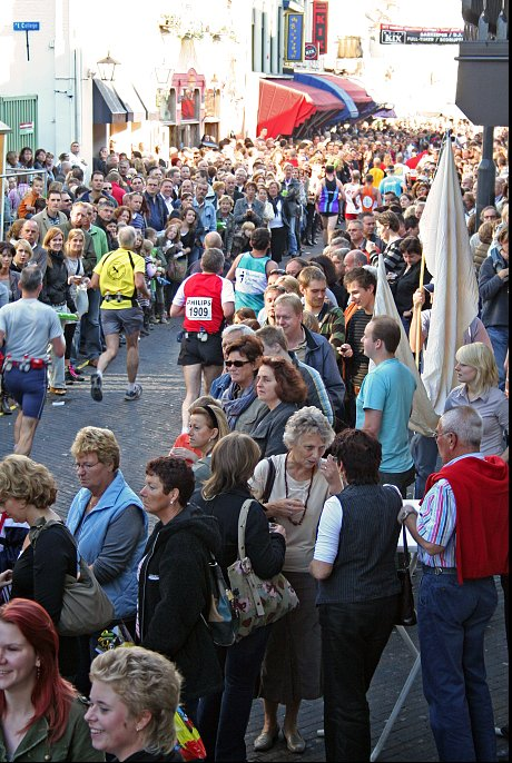 Marathon Eindhoven, Stratumseind